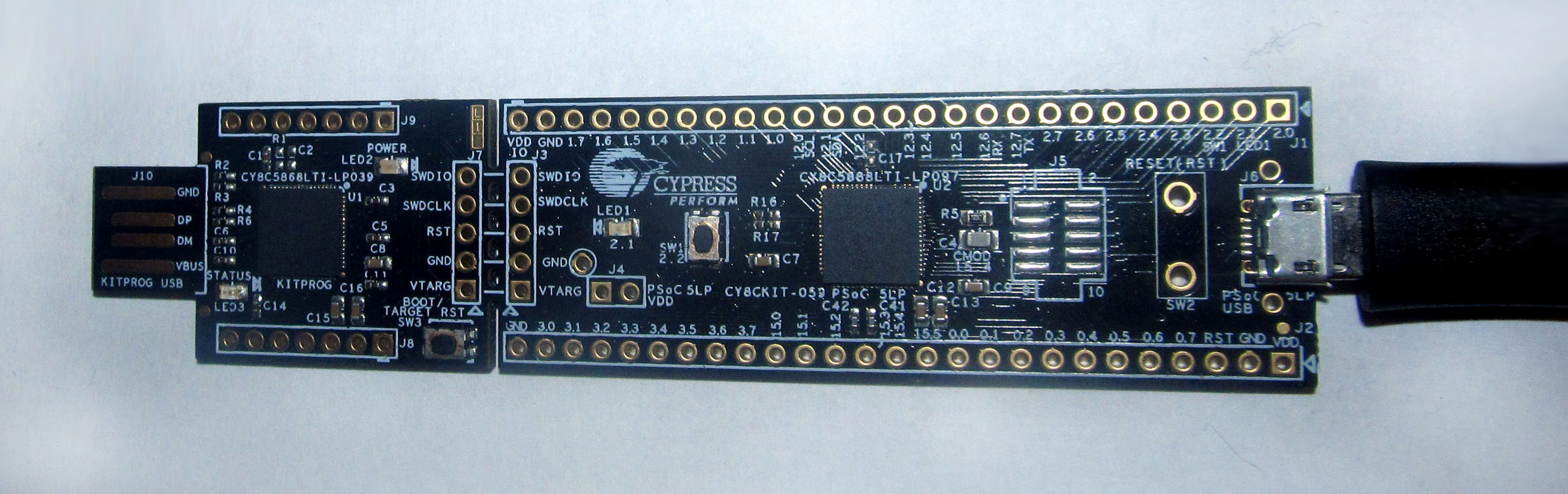 CY8CKIT-059 PSoC® 5LP Prototyping Kit